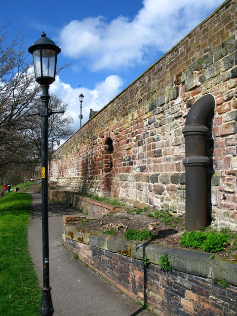 West Walls Sallyport. A nearby Civic Trust plaque states "Tithes received here".